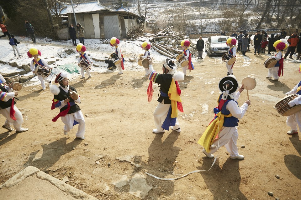 they're not expert of 'Imsil pilbong nongak'. but they enjoy and play it.